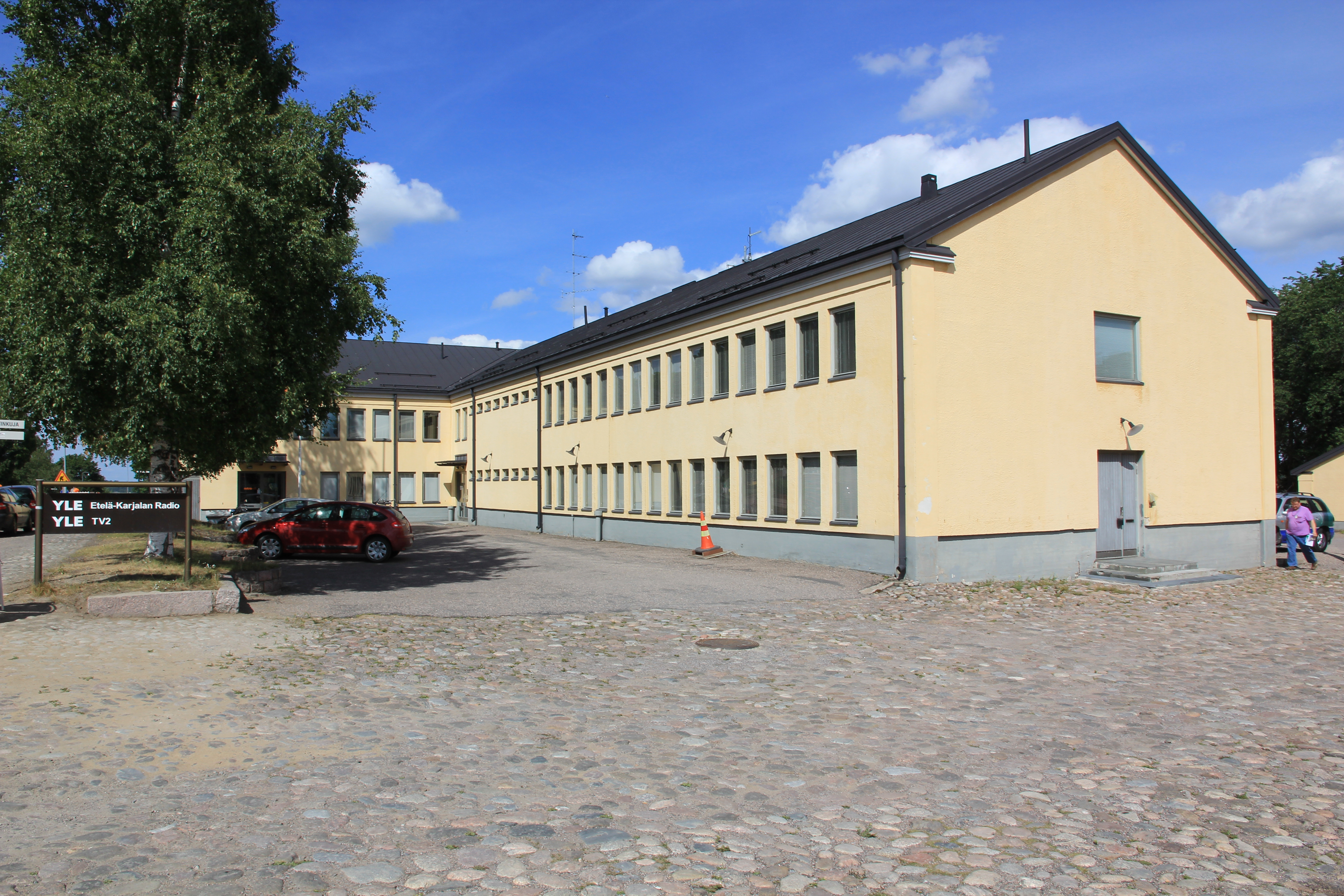 Yle radiotalo building in Lappeenranta Fortress, housing the studio of Etelä-Karjalan Radio and some TV2 programs.